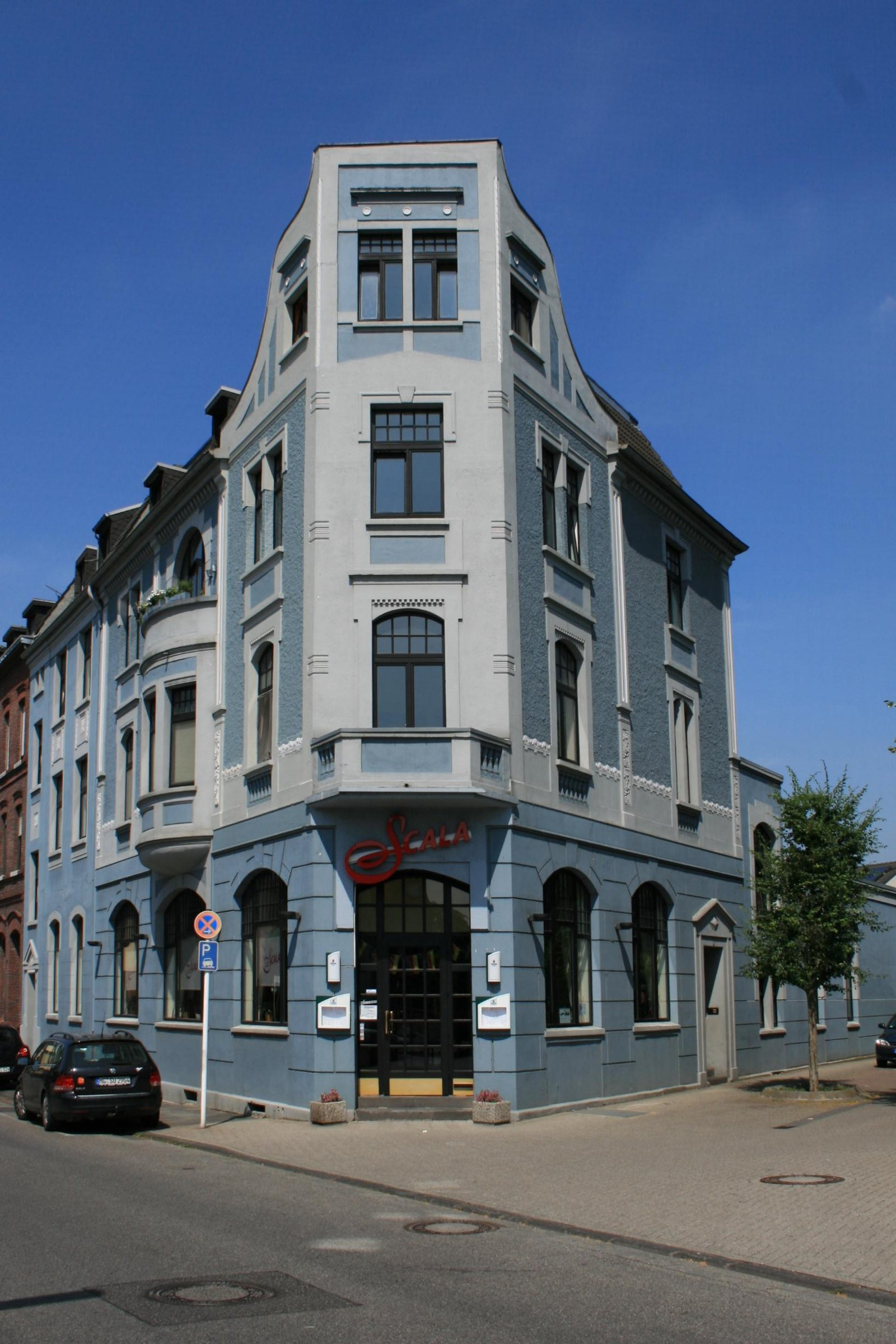 Cultural heritage monument No. W 025 in Mönchengladbach